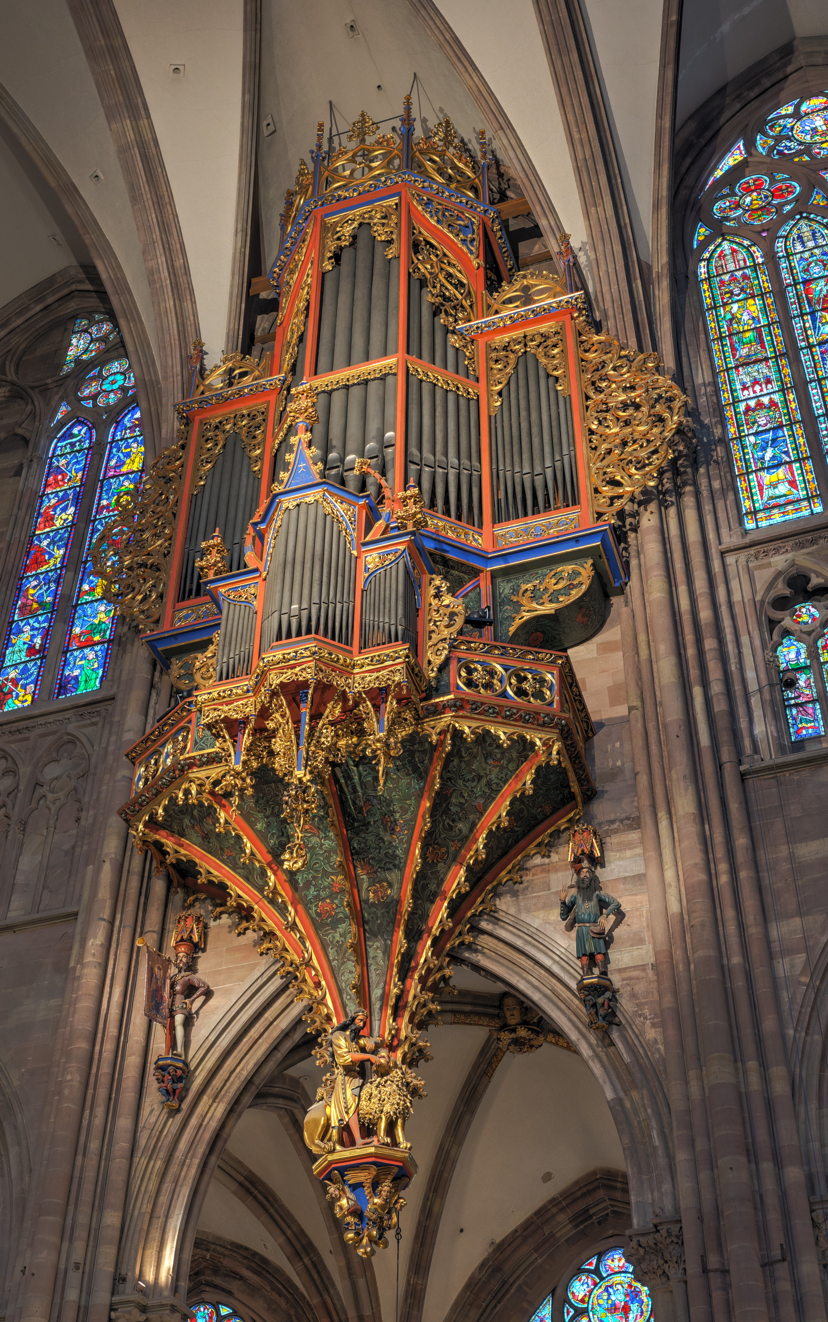 Strasbourg Cathedral's ornate organ.